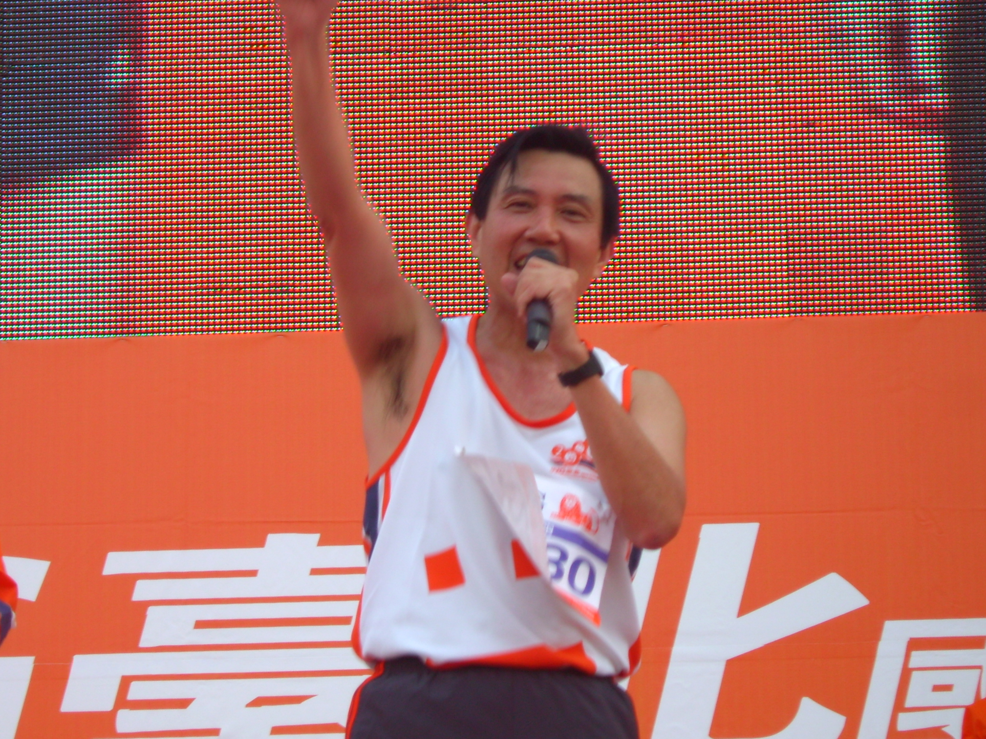 Current Taipei City Mayor Ying-jeou Ma made his speech at Main Stage after finishing his 9KM race at 2006 ING the 10th Taipei Intermational Marathon.